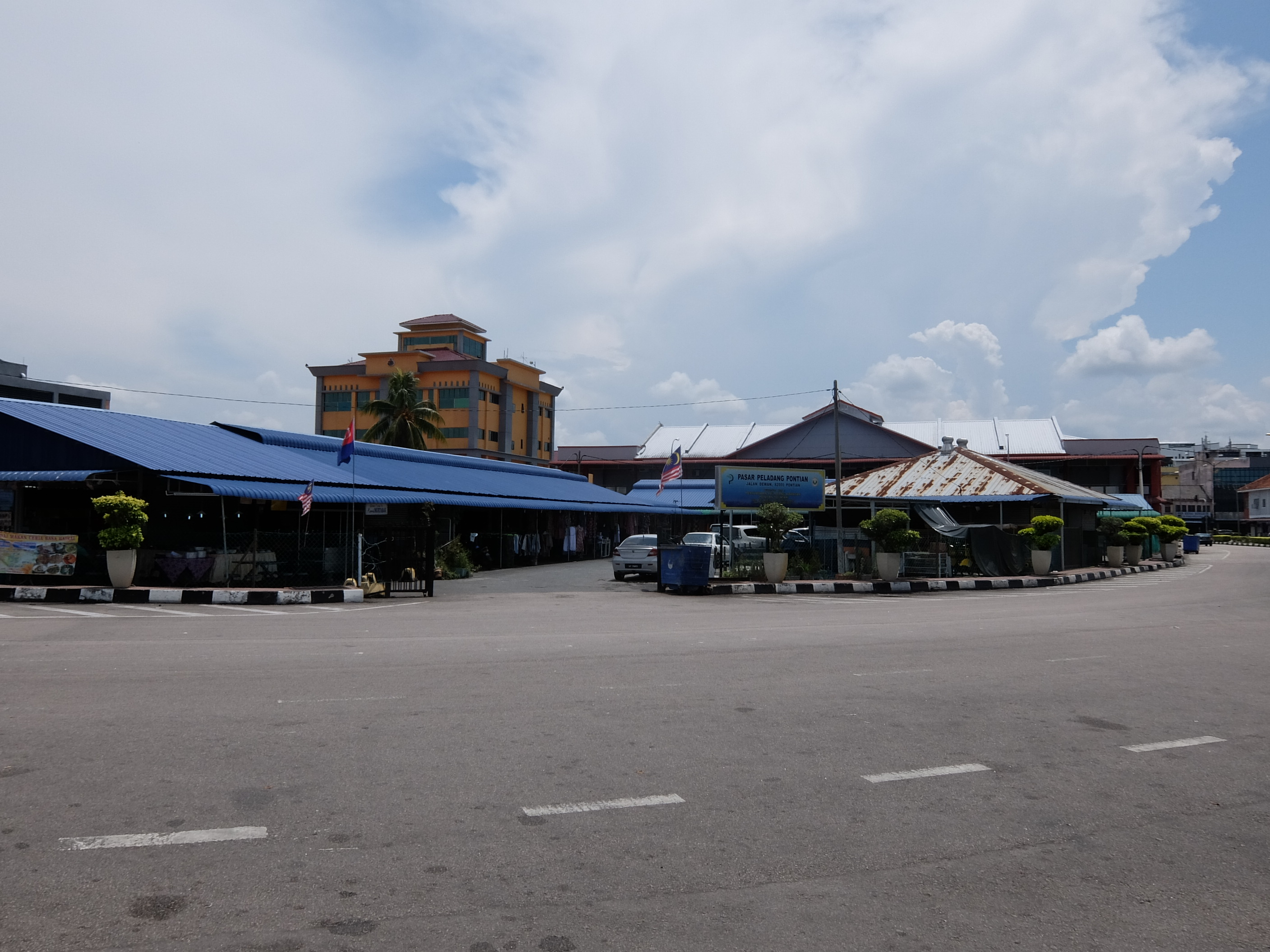 Pontian Farmers' Market, Pontian Kechil, Pontian, Johor, Malaysia